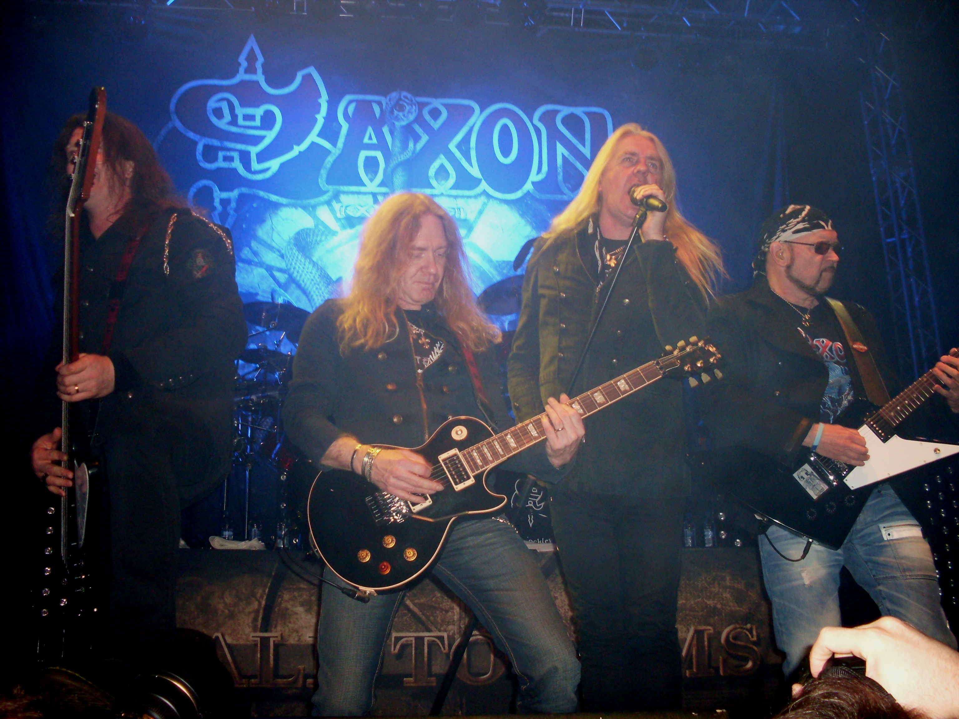 Saxon Performing at Leeds O2 Academy on their Call To Arms world tour.